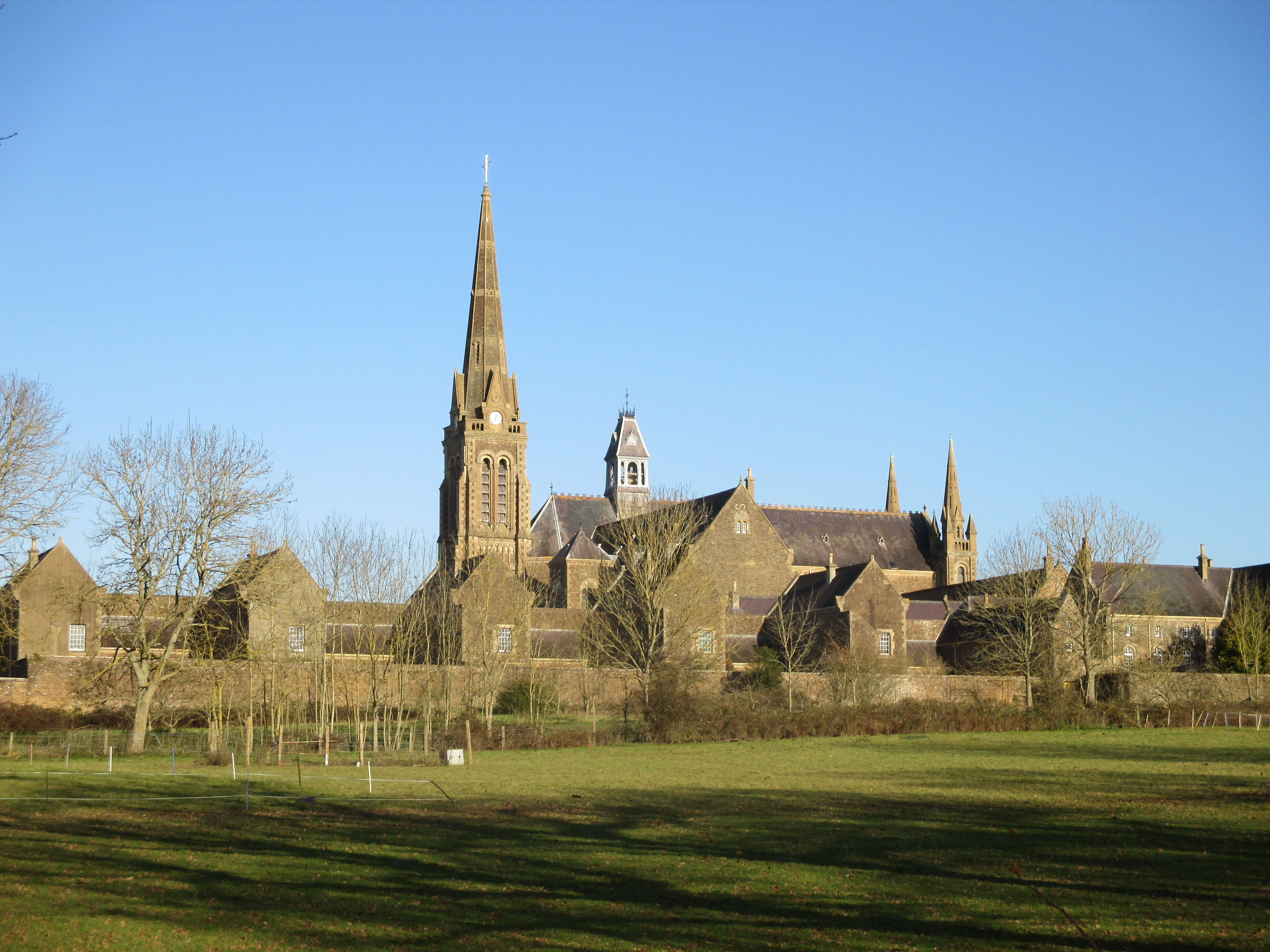 St. Hugh's Charterhouse, Parkminster, West Sussex, photographed from the south.